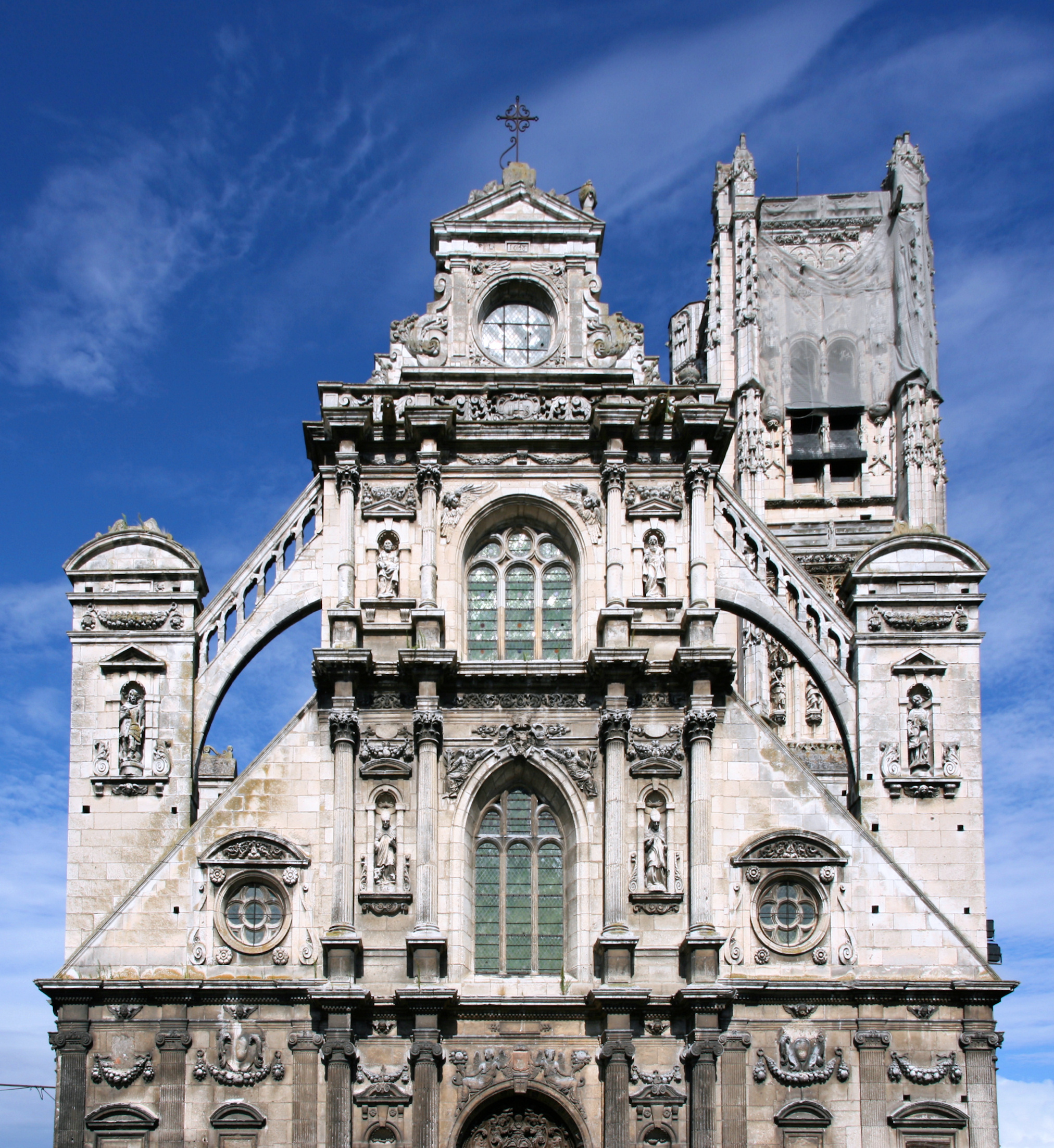 Saint Pierre Church in Auxerre, Burgundy, France.